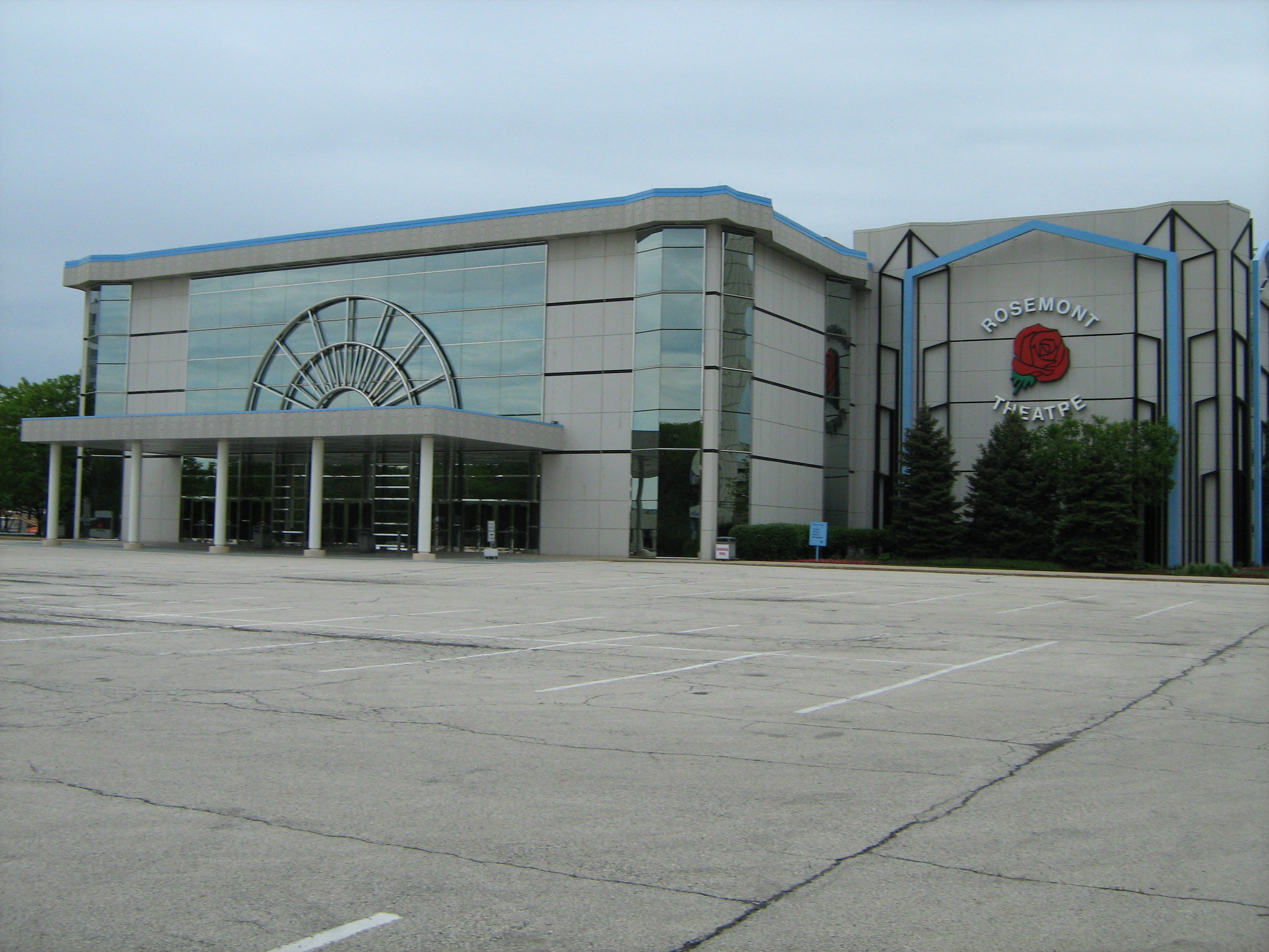 5400 N River Rd Rosemont, IL 60018